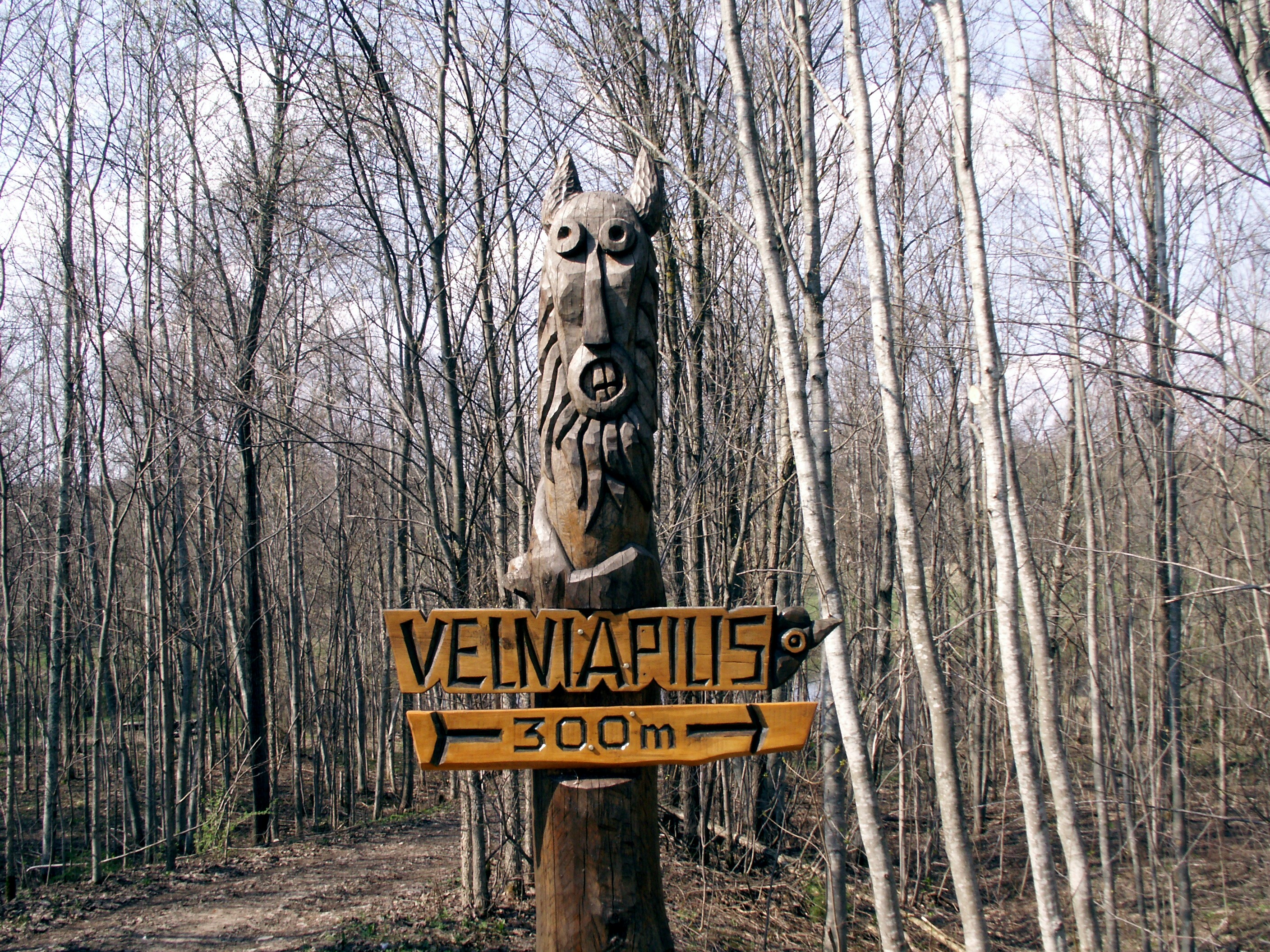 Velniapilis, Biržai district, Lithuania